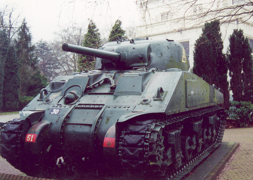 M4 Sherman in front of museum near Arnhem